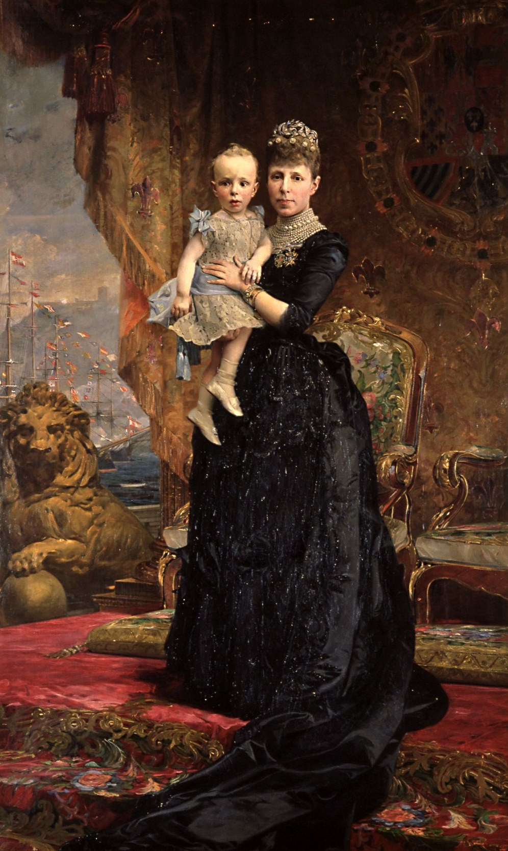 Maria Christina of Austria, queen dowager and regent of Spain, holding king Alfonso XIII